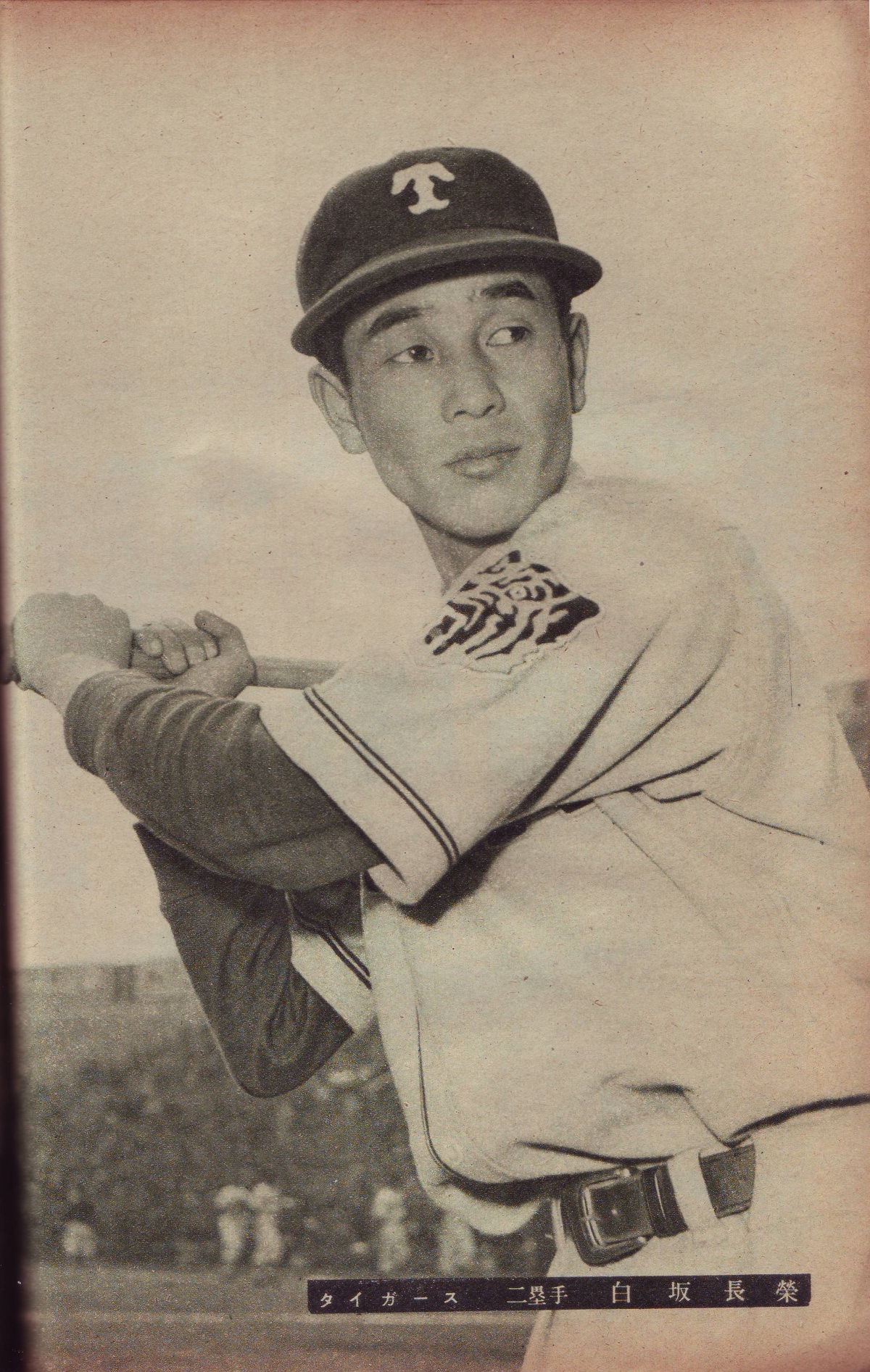 Choei Shirasaka (Hanshin Tigers). taken in 1950.